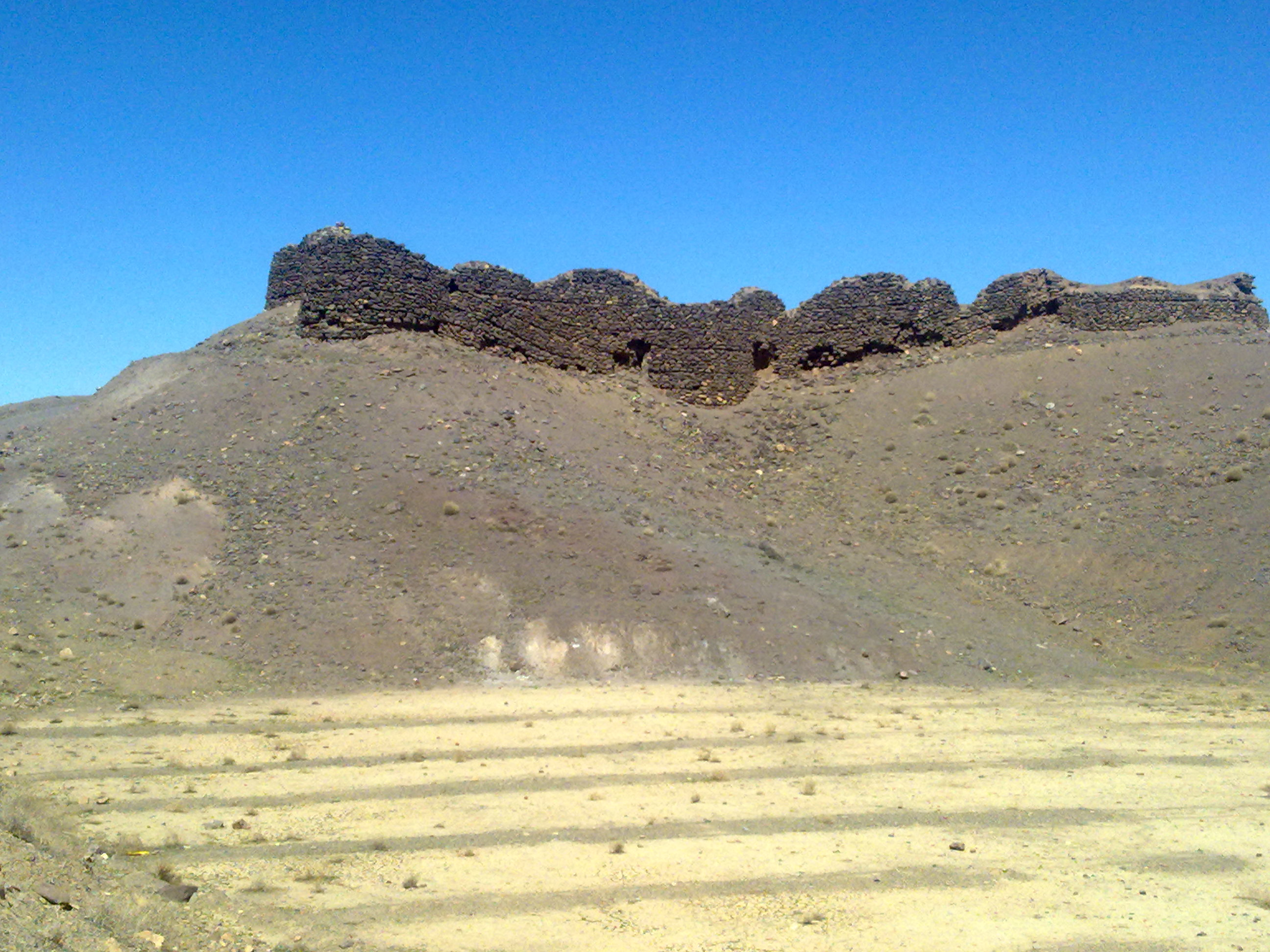 Castle of last Sassanian emperor, in Zibad, Iran